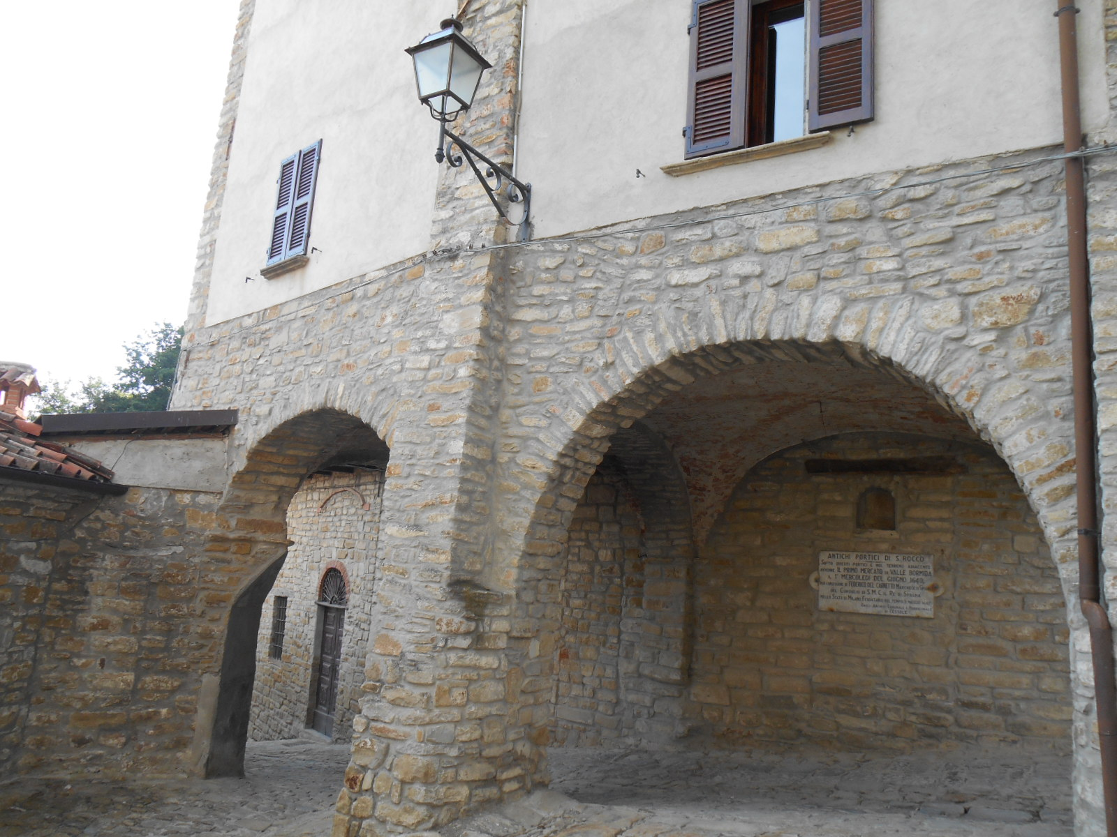 S.Rochus arcades from the church square